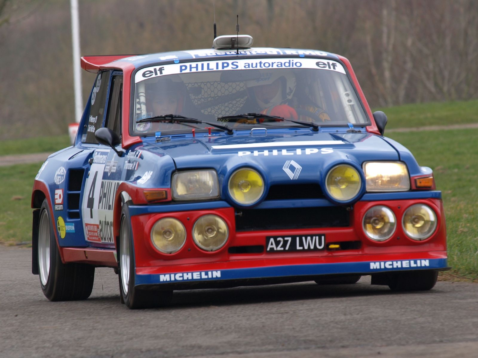 Jean Ragnotti's Renault 5 Maxi Turbo driven at Race Retro 2008, the International Historic Motorsport Show, at Stoneleigh Park, Coventry, England.